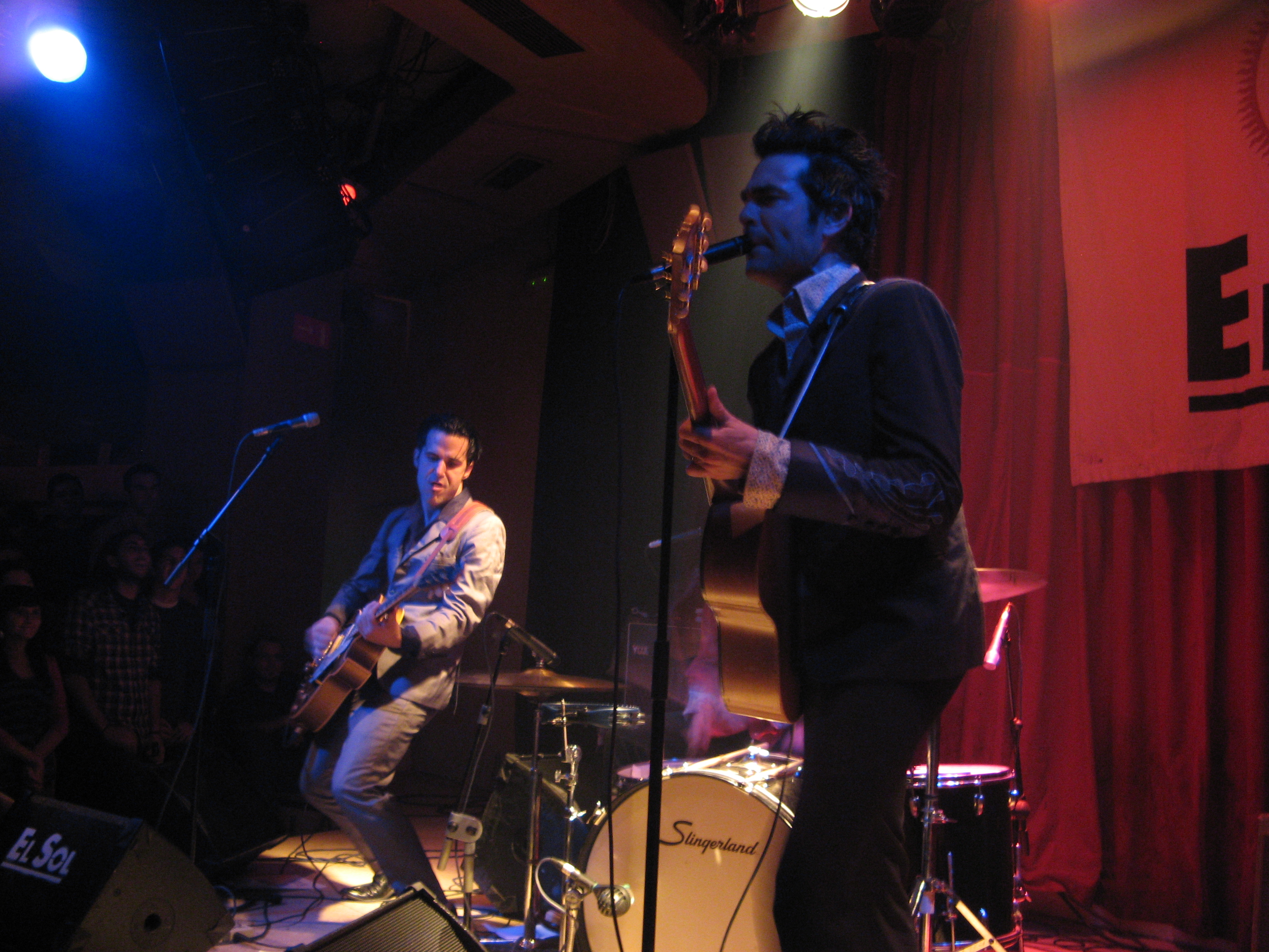 Matt Verta-Ray and Jon Spencer